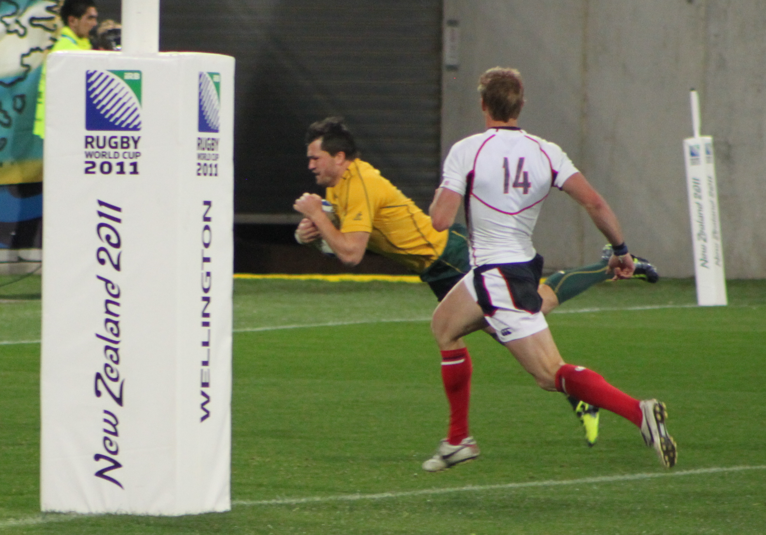 Australian rugby union player Adam Ashley-Cooper scores a try against USA during 2011 Rugby World Cup match.